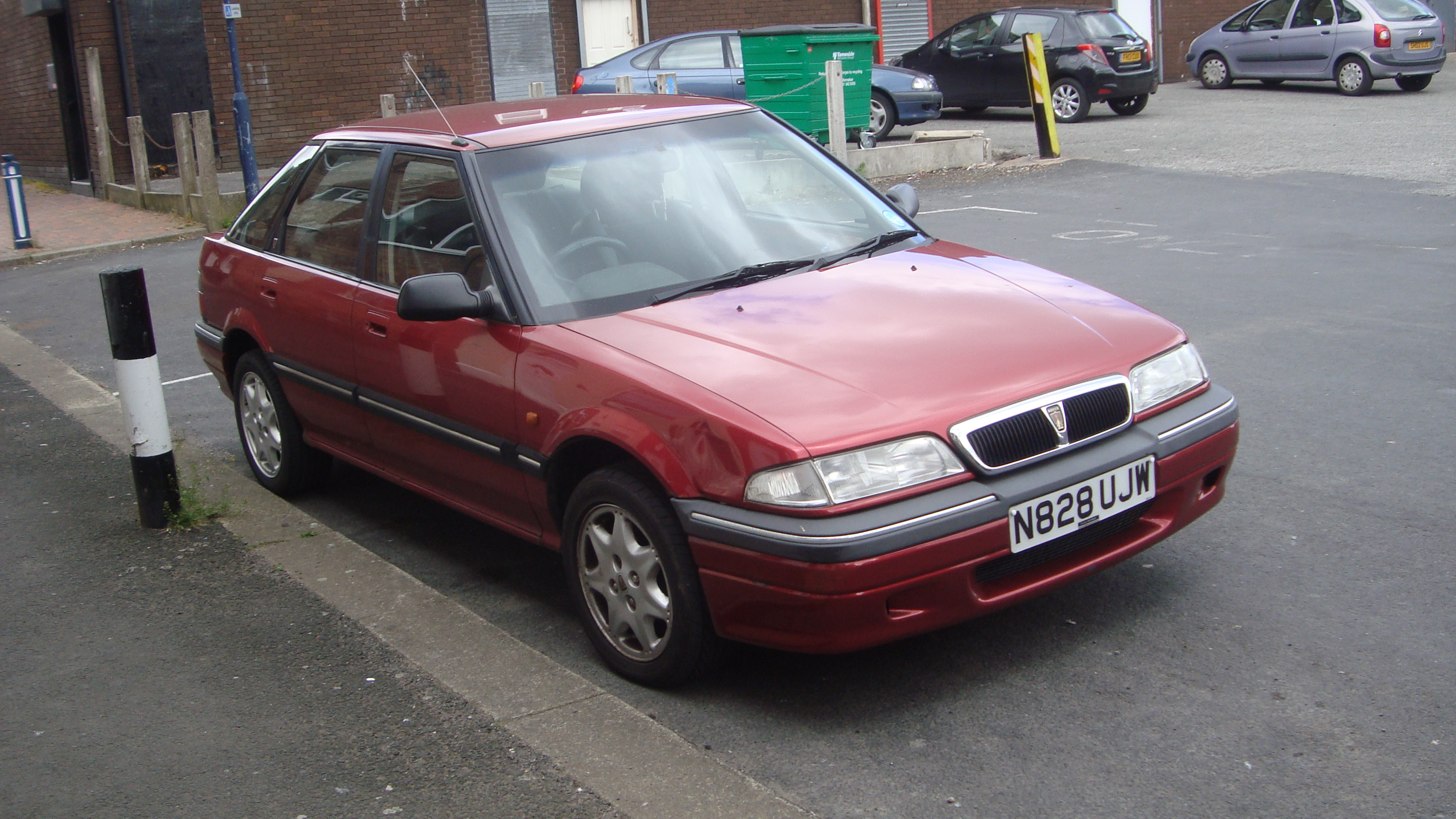 The perfect colour/spec combo for one of these in my opinion